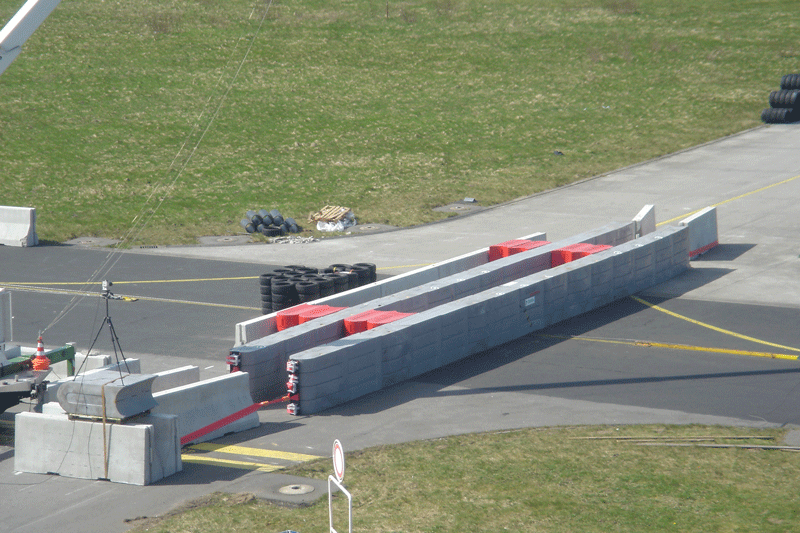 Tecpro Barriers Crash Test